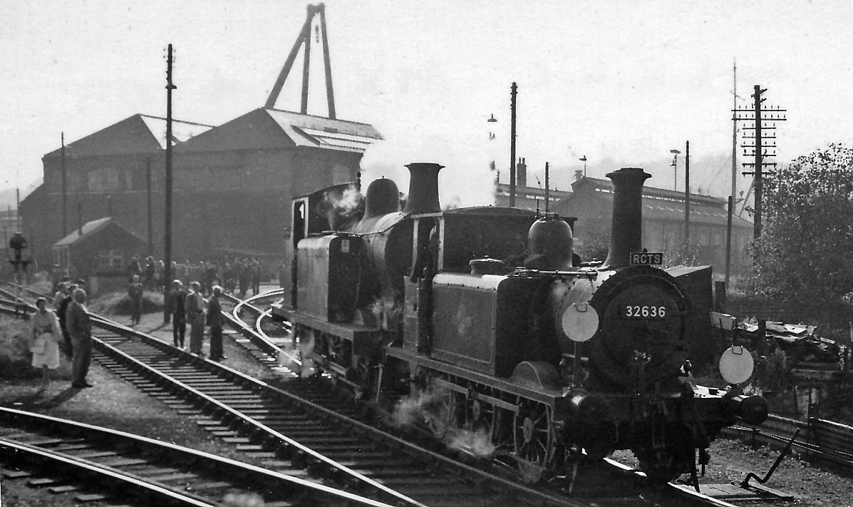 Newhaven Locomotive Depot with ex-LB&SC 0-6-0T and 0-6-2T. Enthusiasts off the RCTS Sussex Rail Tour (see TQ3380 : London Bridge (Central ) Station, with 'Schools' 4-4-0 on a Rail Tour) mill round the Locomotive Yard and watch the two ex LB&SC engines which worked our Special from Lewes to Seaford and back to Brighton. In front is No. 32636, a Marsh A1X rebuild (1913) of Stroudley A1 class 0-6-0T ('Terrier') No. 72 'Fenchurch' of 9/1872, which belonged to the Newhaven Harbour Co. 1898-1926, then became SR No. B636, 2636 and BR 32636, was withdrawn in 11/63 and is preserved on the Bluebell Railway as No. 72 'Fenchurch' again!. Behind is R. Billinton E6 class 0-6-2T No. 32418, built 12/1905, withdrawn 12/62. Newhaven Depot was a sub-depot of Brighton (BR code 75A) and (in 11/54) had an allocation of 13:- 3 4-4-2, 2 0-6-0, 5 0-6-2T and 3 0-6-0T.